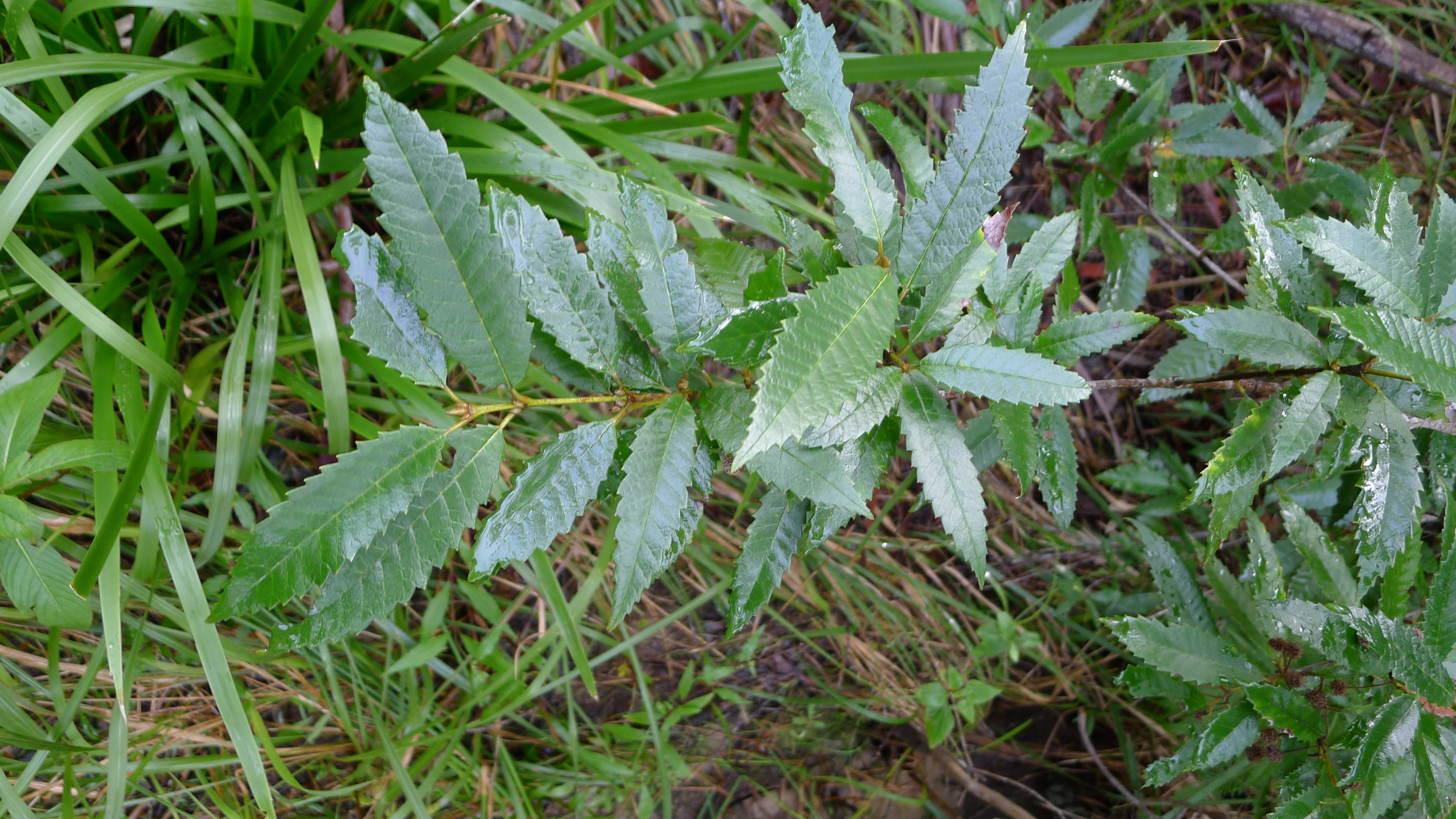 Not really a wattle, though it is known as Black Wattle. Serrated leaves of Callicoma serratifolia. Waterfall, NSW Australia, July 2011. See PlantNET for a description and distribution in NSW.